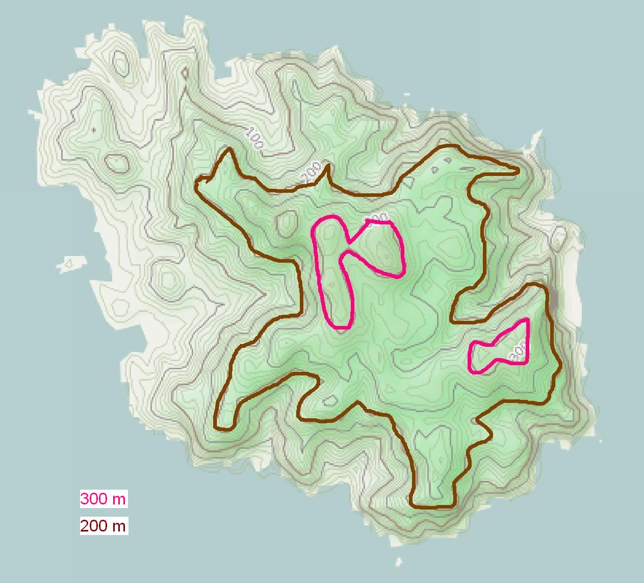 Polyaigos, Aegean Sea, Greece